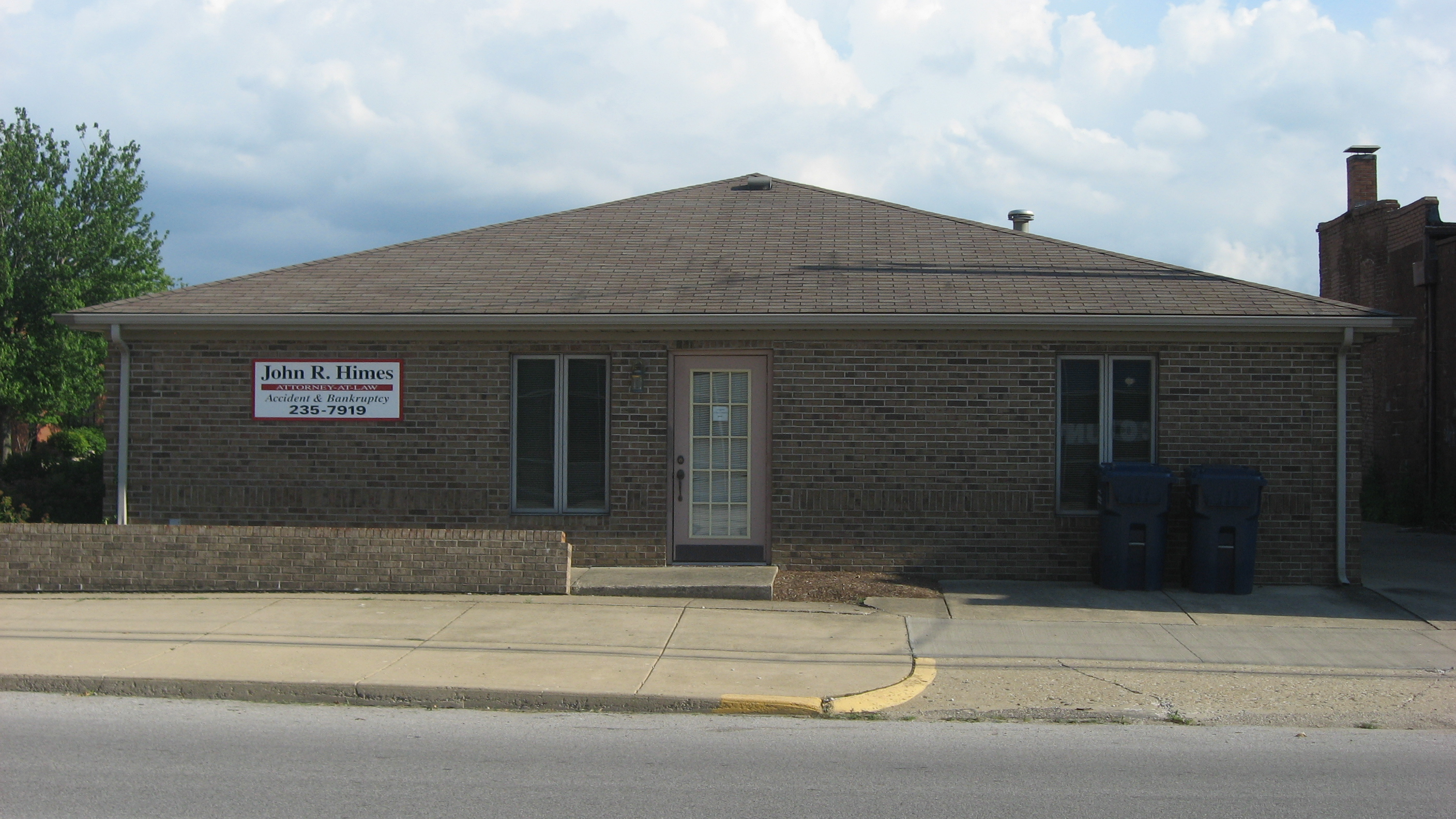 Site of Carr's Hall, located at 329-333 Walnut Street in Terre Haute, Indiana, United States. Built in 1857, the hall remains listed on the National Register of Historic Places despite its destruction.